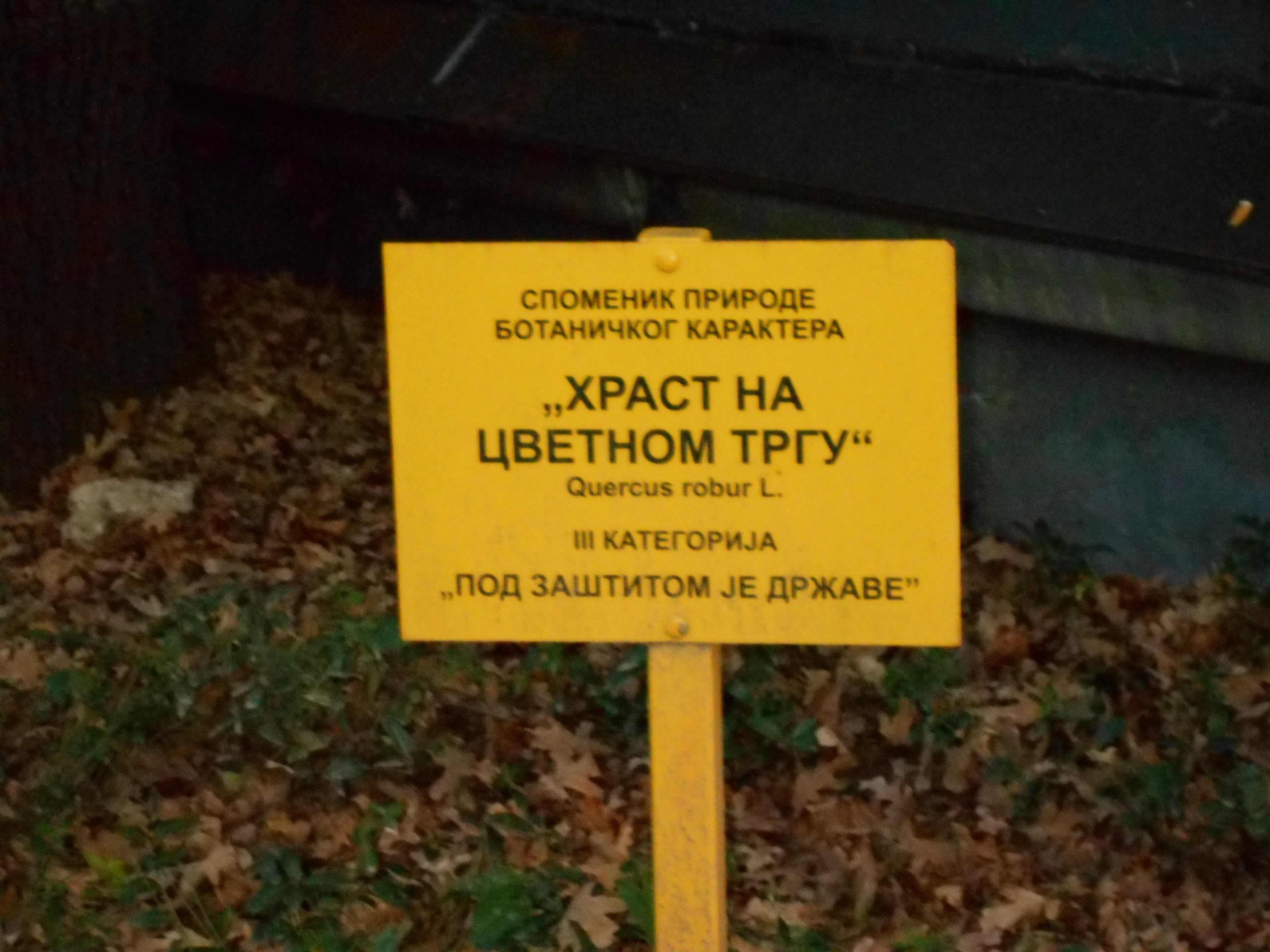 English oak (Quercus robur) on Cvetni trg in Belgrade is Belgrade's oldest tree. Under state protection as a natural monument Category III. (Notice of Protection)